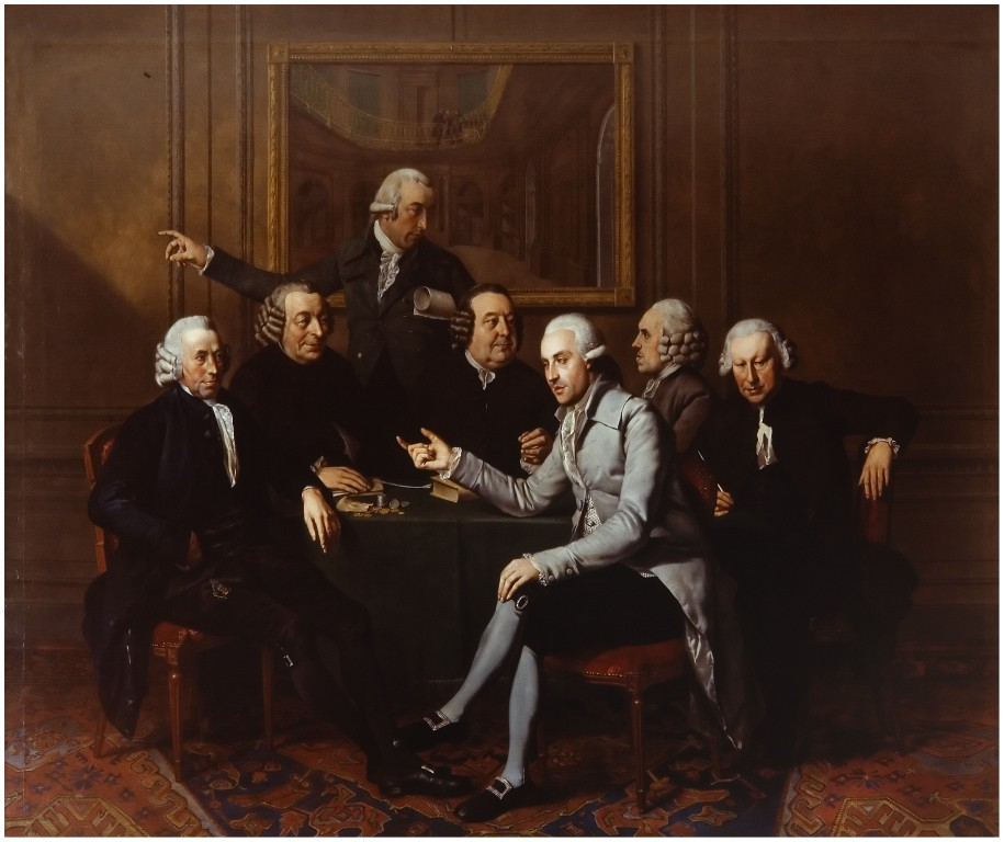 Group portrait of the Board of Teylers Foundation, with their secretary and the architect Leendert Viervant, In 1786 the Board of Teylers Foundation (Dutch: Teylers Stichting) consisted of (sitting from left to right in the portrait) Willem van der Vlugt Sr. (1778-1807), Antoni Kuits (1778-1789), Gerard Hugaart (1778-1791), Adriaan van Zeebergh (1780-1824) and Jan Herdingh (1782-1822). Also depicted is, all on the right, Koenraad Hovens, secretary to the Board and standing their architect, Leendert Viervant the Younger.